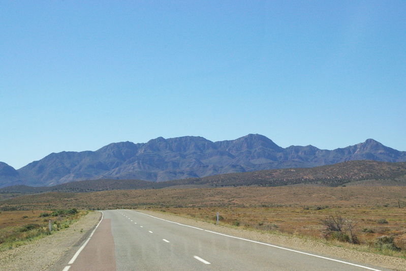 Pompey's Pillar from the southwest, April 2006. Taken by myself.